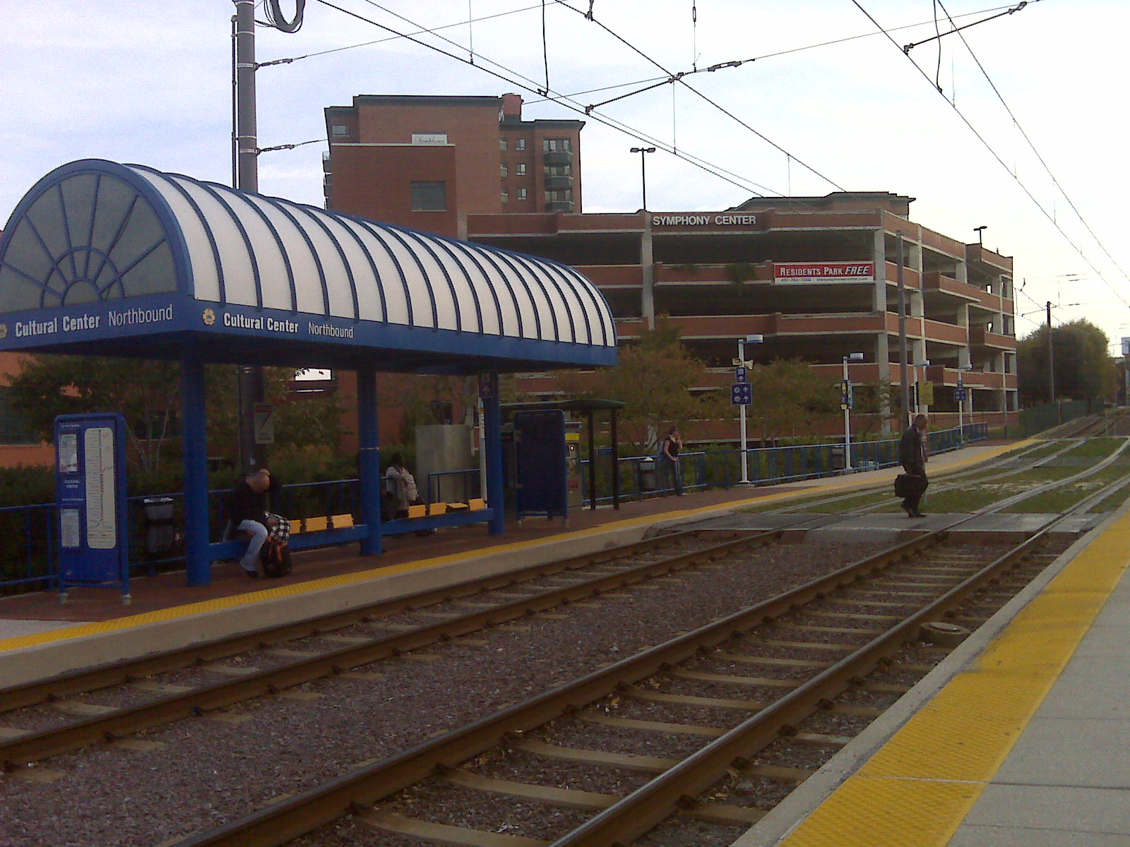 A picture of the Cultural Center stop on MTA Maryland's Light Rail system, in downtown Baltimore, facing northward along the tracks. To the left is Howard Street.